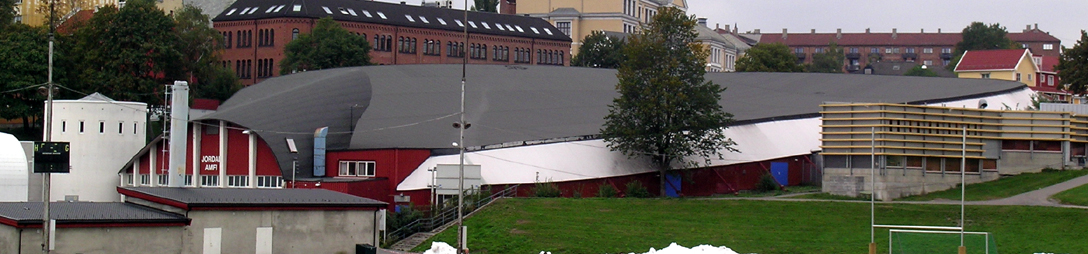 Jordal amfi, Oslo. Built 1951. Architects: Frode Rinnan and Olav Tveten.